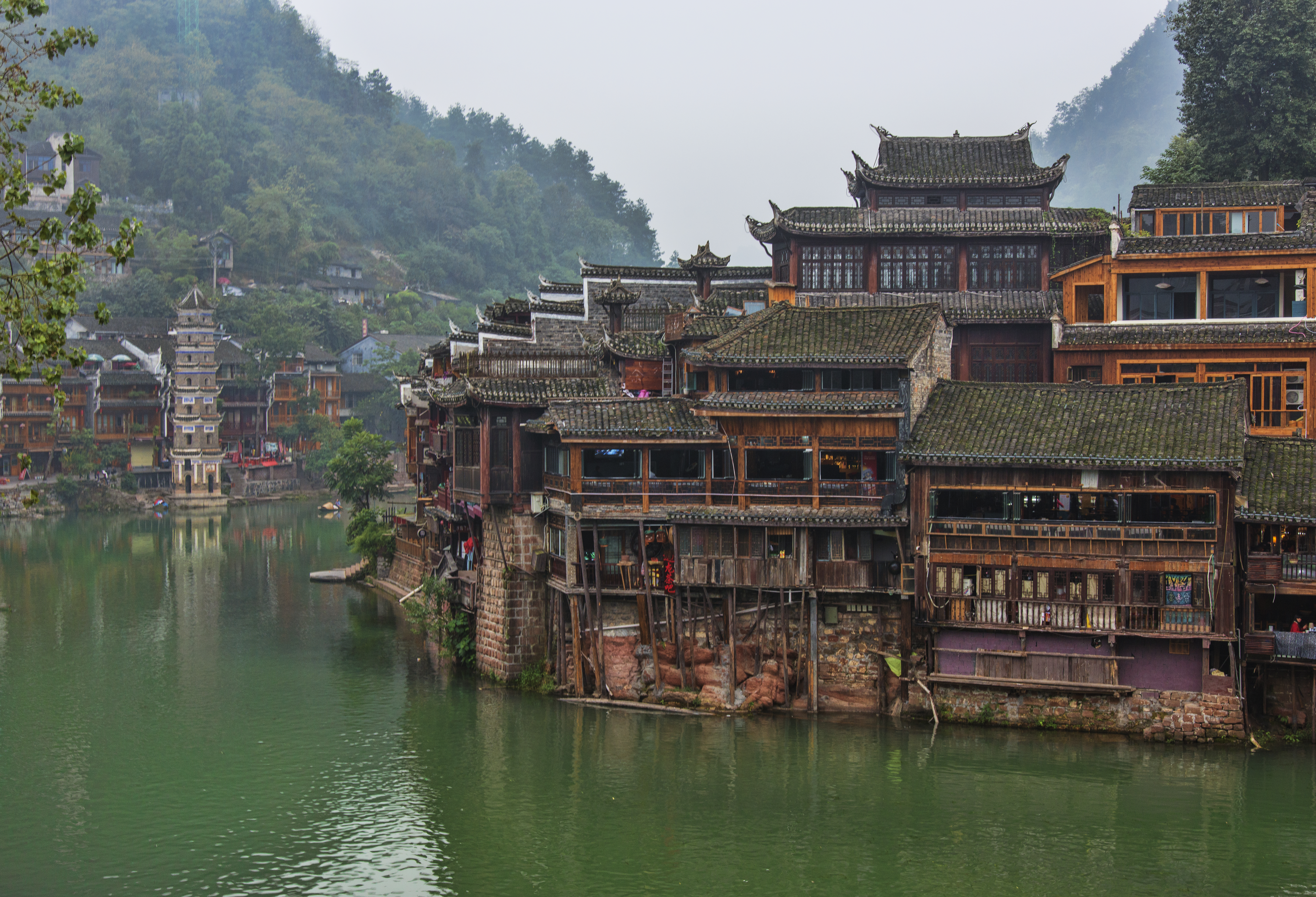 fenghuang county ancient town hunan china 2012 tujia miao minority